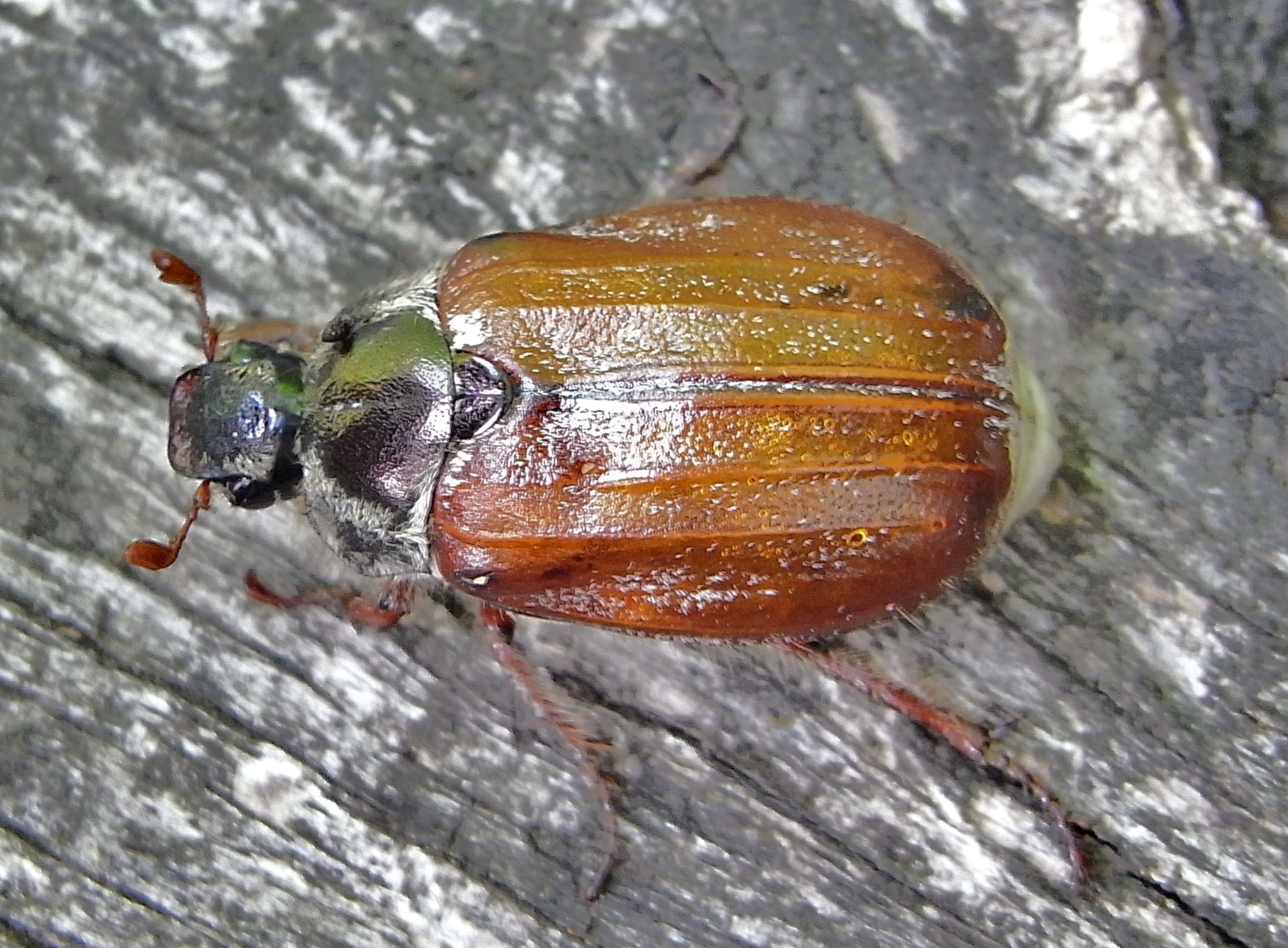 Melolontha pectoralis from Hungary, at 2010-06-12 in Zemplen-mountains Ricoh R8